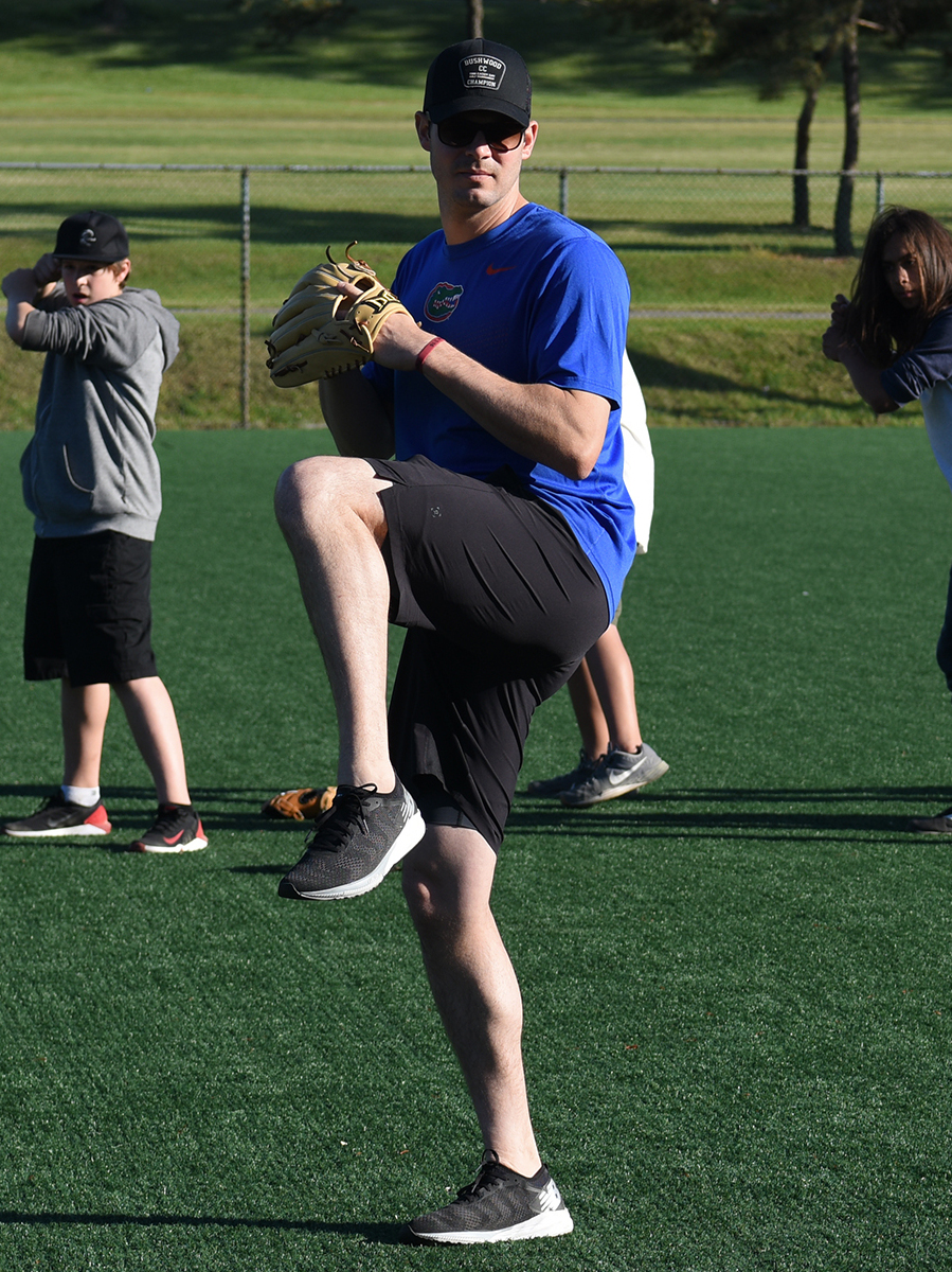 Jake Brigham, a Korean Baseball Organization (KBO) player, gives baseball tips to Team Osan and Republic of Korea Air Force kids at Osan Air Base, ROK, May 20, 2019. American players form the KBO visited the base to host a baseball camp for youth baseball players here. (U.S. Air Force photo by Staff Sgt. Sergio A. Gamboa)